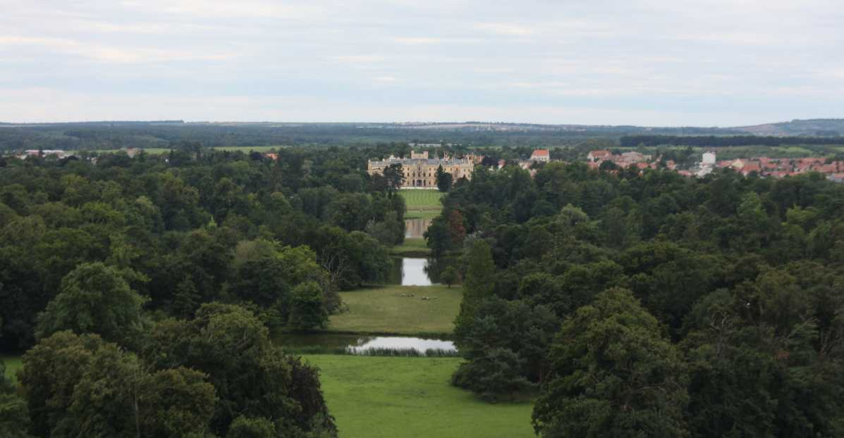 Lednice na Moravě, Czech republic, english park